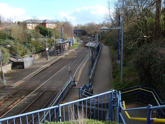 Guns Village Station A Stop on the Midlands Metro near West Bromwich.